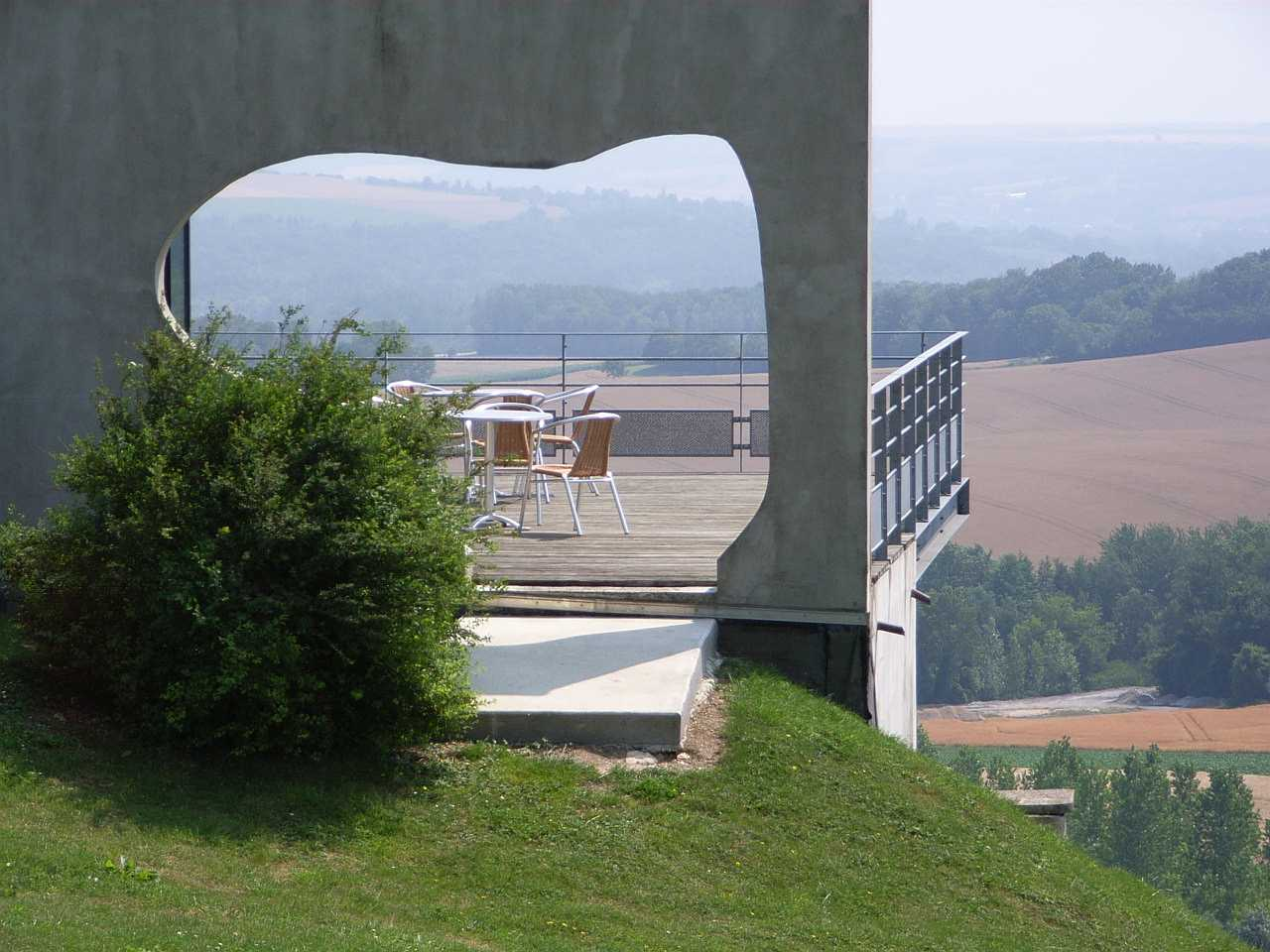 Cavern du dragon, Museum World War I